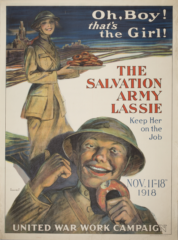 "Oh, Boy that's the Girl! The Salvation Army Lassie. Keep Her On the Job. Nov. 11th- 18th. United War Work Campaign.", ca. 1917 - ca. 1919